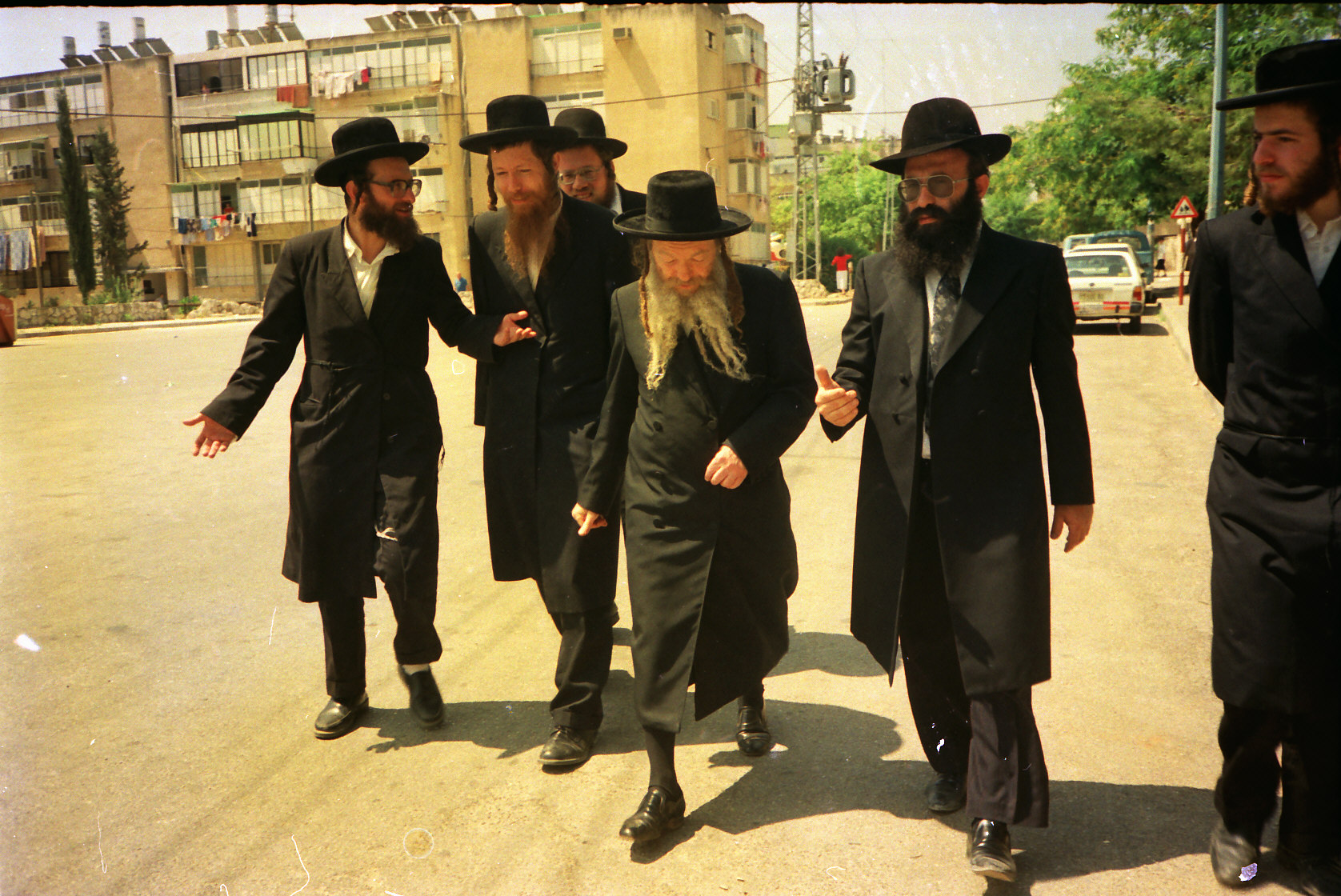 People of Israel